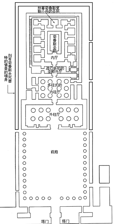 Map of the Edfu Temple, (Egypt). Simp. Chinese Edition.